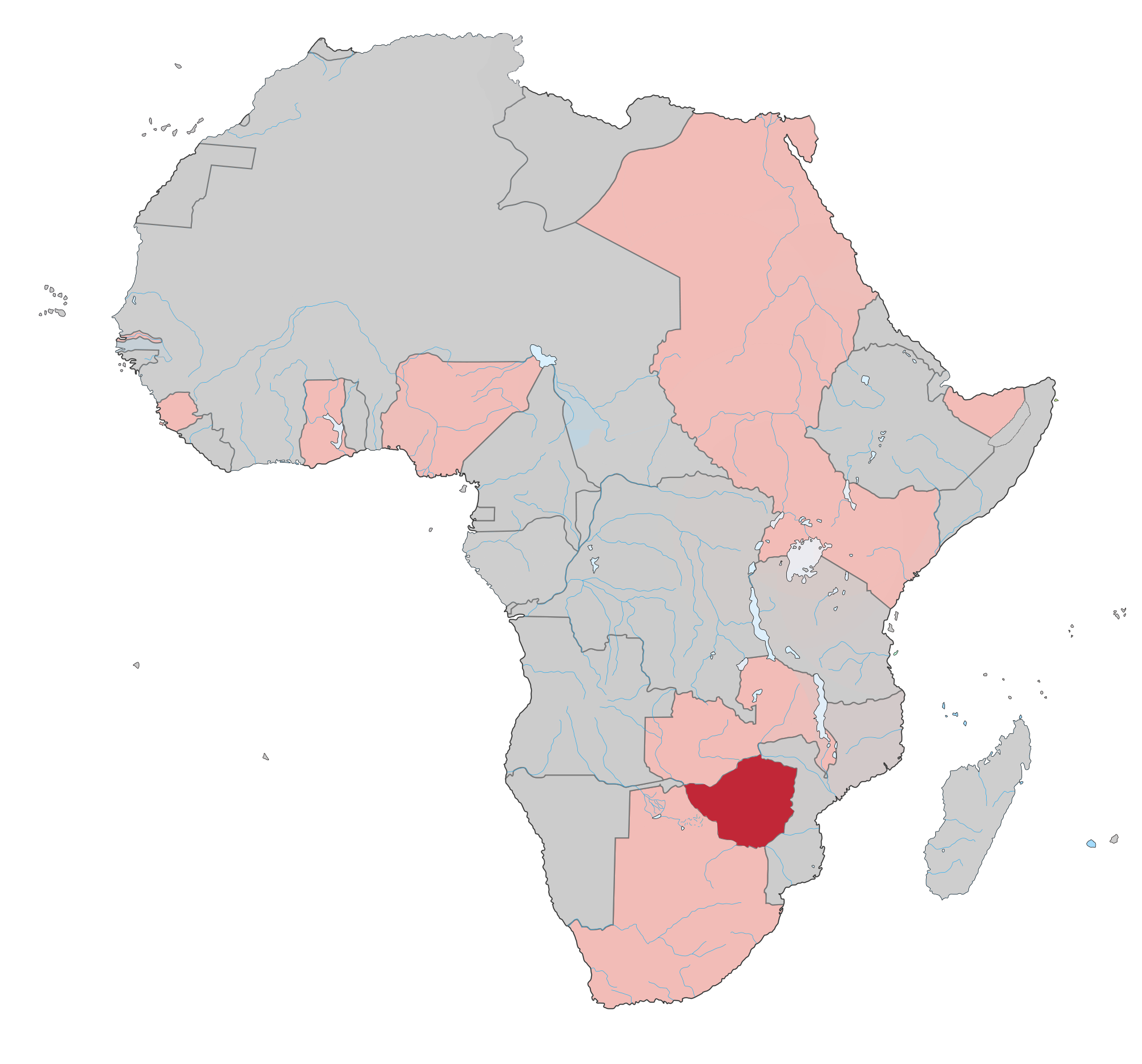 A map of Africa with 1914 borders, with British territories in pink and Southern Rhodesia in dark red. Note : The limits of the areas of control may not be perfectly accurate due to the imprecision of the reference maps.